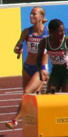 World Athletics Championships 2007 in Osaka - Scene from first heat of the women*s 4*100 relay (1st round)